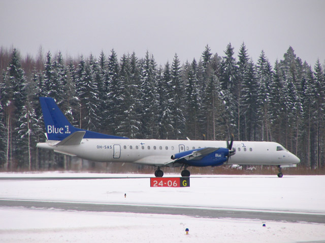 Blue1 Saab 2000 aircraft at Tampere-Pirkkala airport